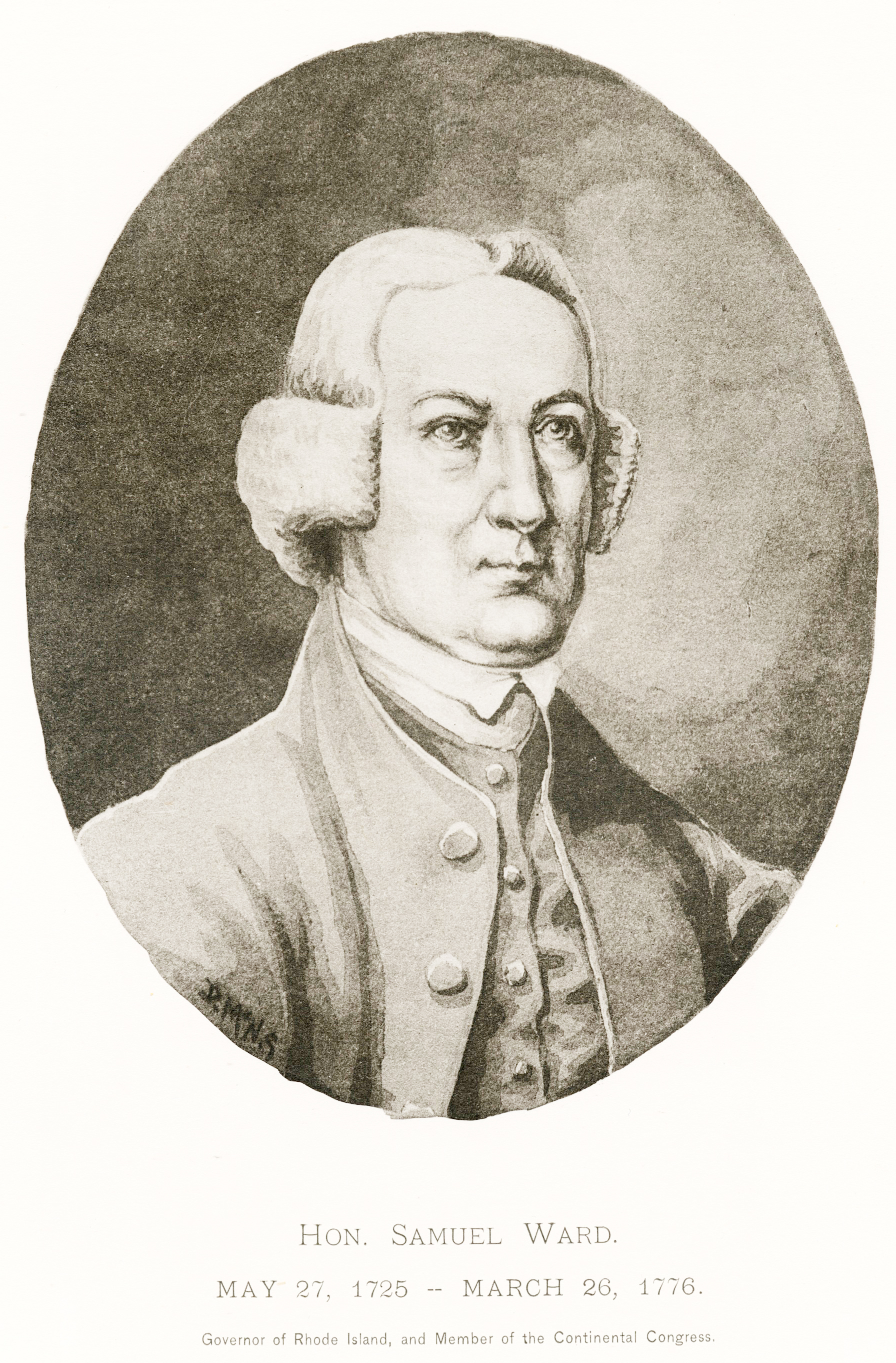 Samuel Ward (1725-1776)